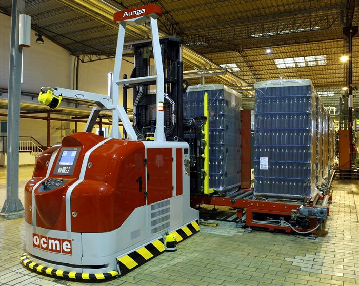 OCME built fully automatic laser guided vehicle handling beverage pallets.